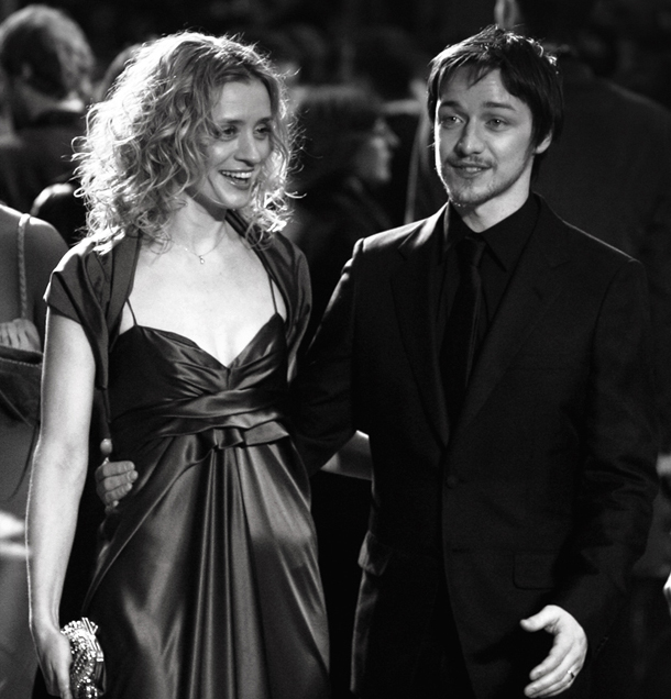 Anne-Marie Duff and James McAvoy at the Orange British Academy Film Awards in London's Royal Opera House